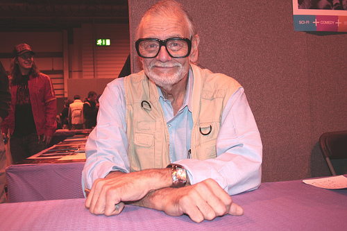 George A. Romero. I took this picture at a horror convention in 2005.